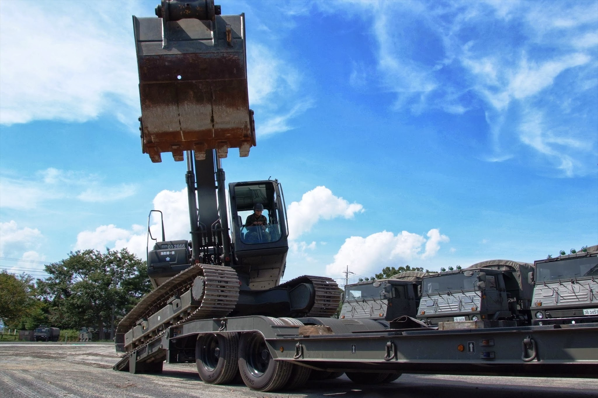 Title 24.9.10 施設教導隊・油圧ショベルのトレーラ搭載1.jpg Album 装備 油圧ショベル（トレーラ搭載・施設教導隊）